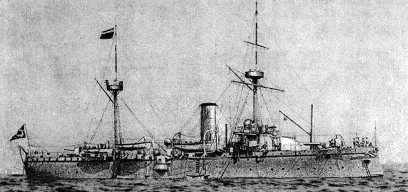 The chinese Cruiser Jingyuan (1886), built by Armstrong, leaving Portsmouth 1887